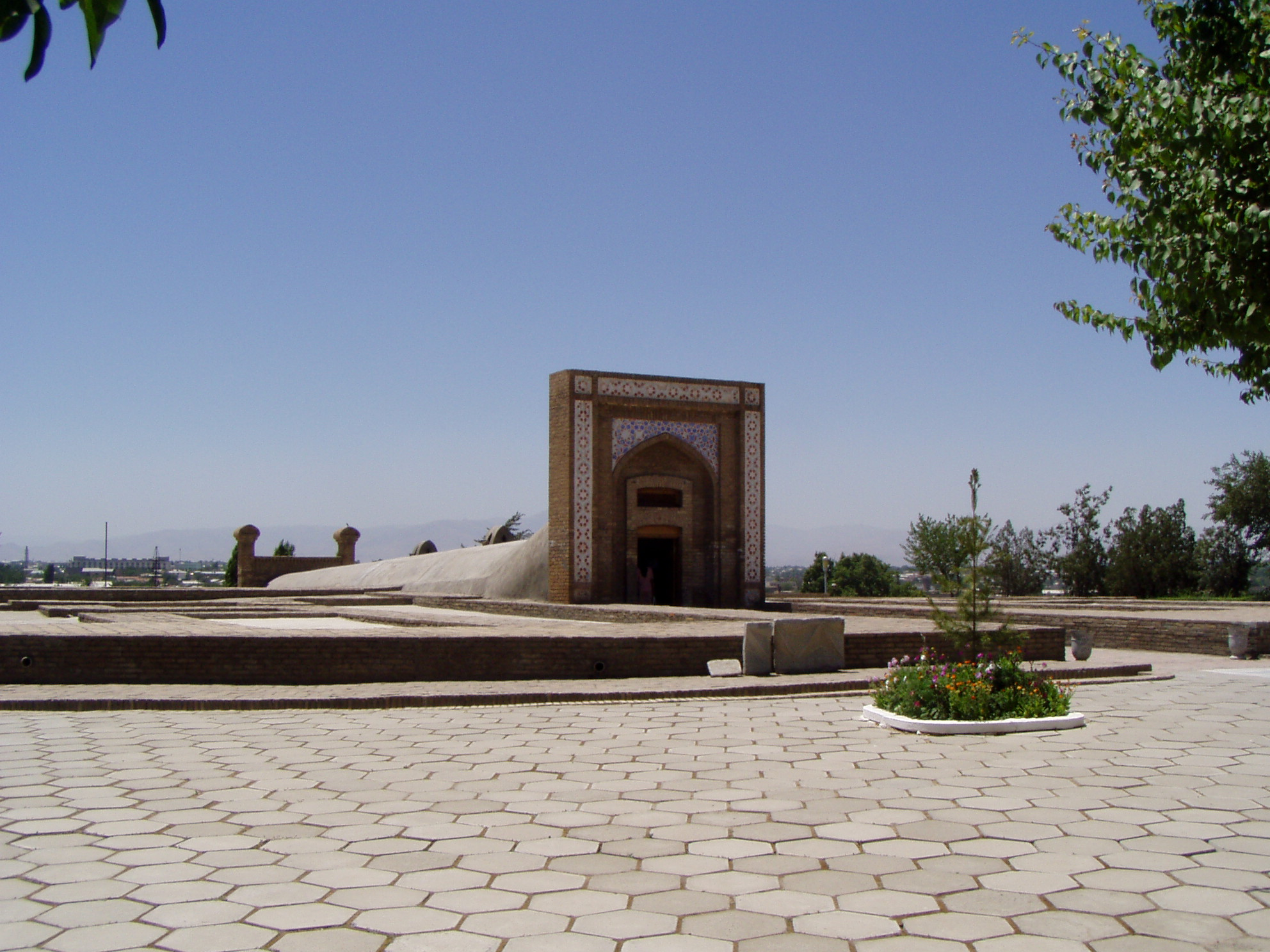 Entrance to the observatory of Ulug'Beg (now Museum) in Samarkand (Uzbekistan)